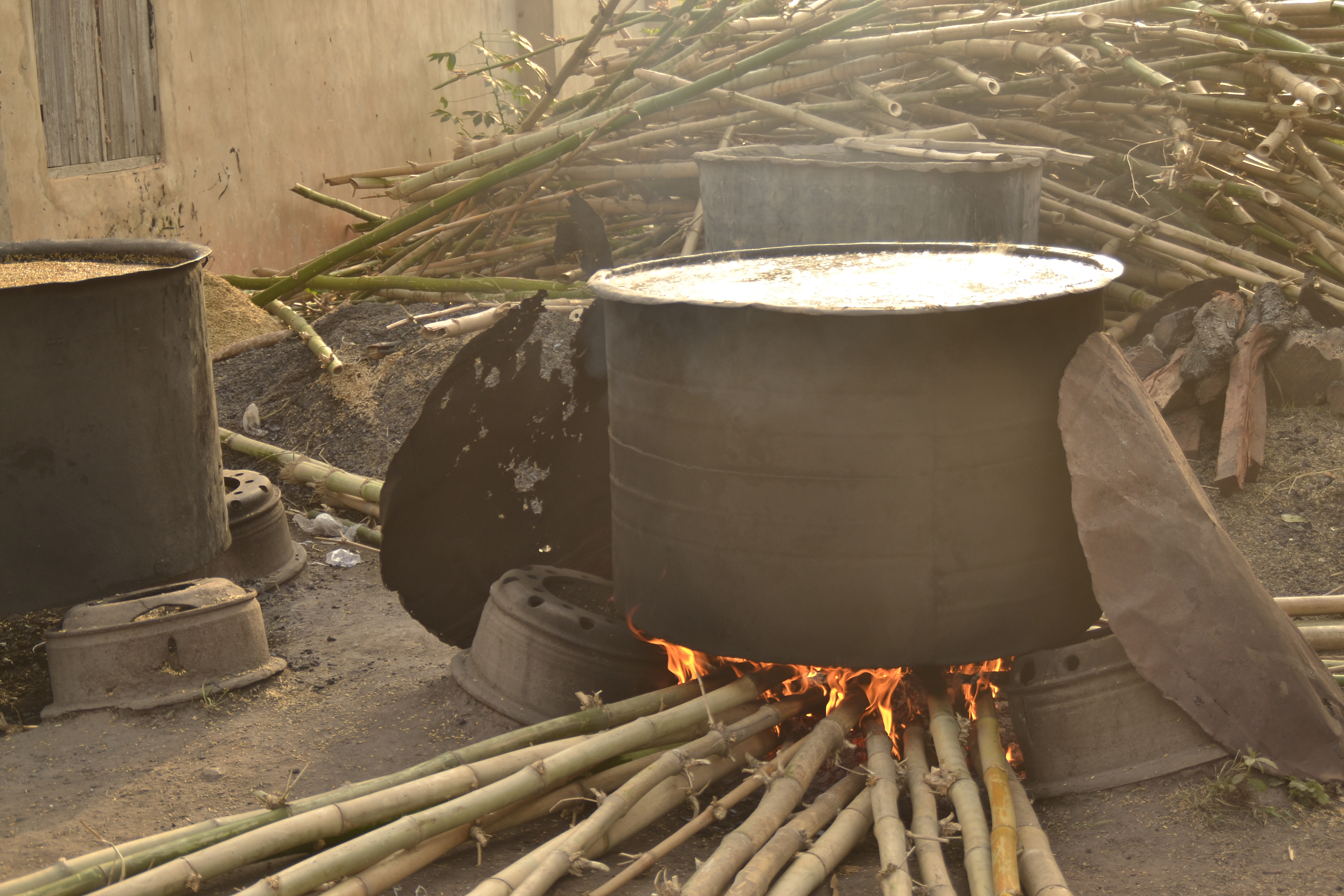 Parboiling of the paddy rice to aid softening of the husk and bran